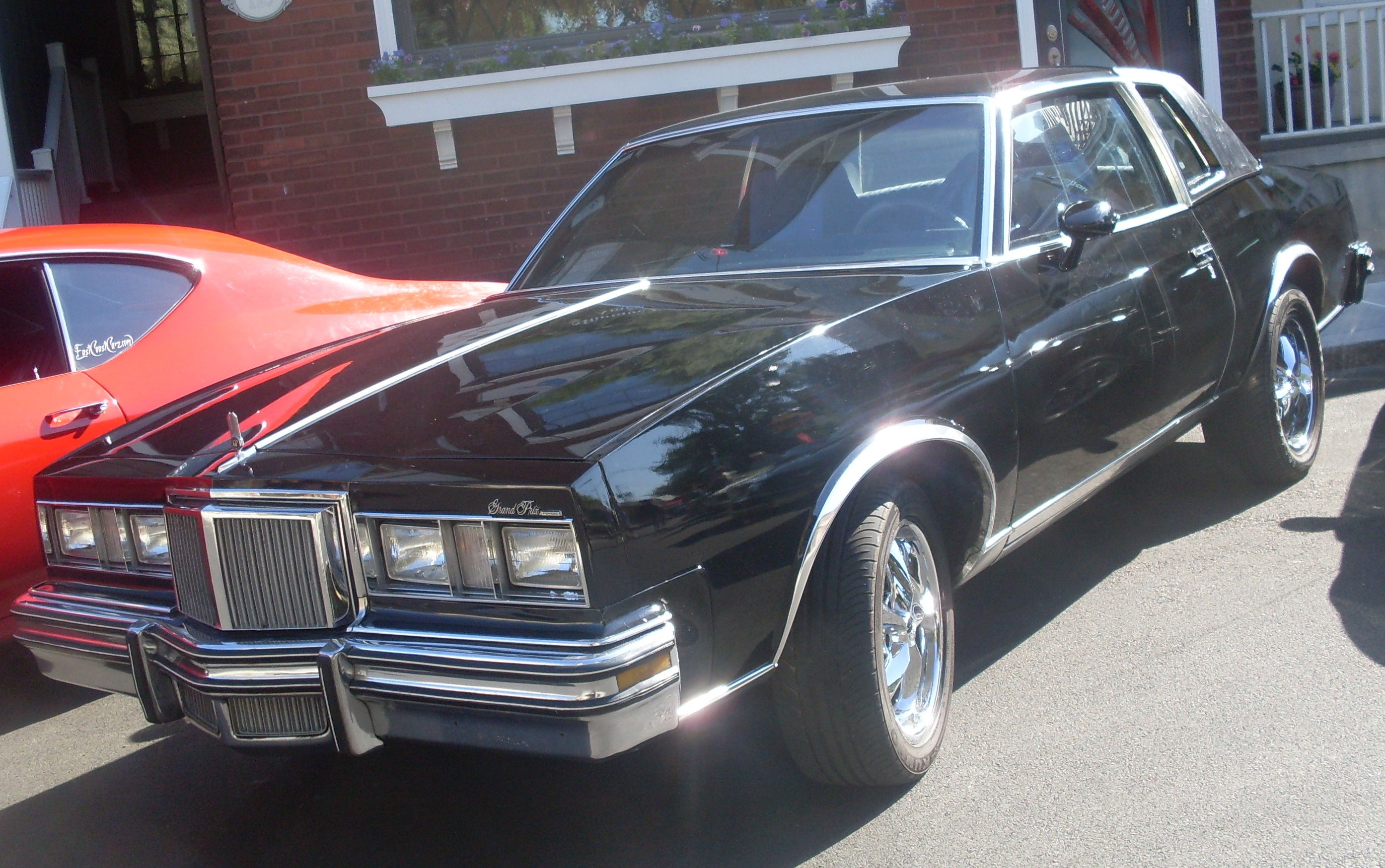 1978 Pontiac Grand Prix photographed at the 2013 Cruisin' At The Boardwalk auto show in Ste. Anne De Bellevue, Quebec, Canada.